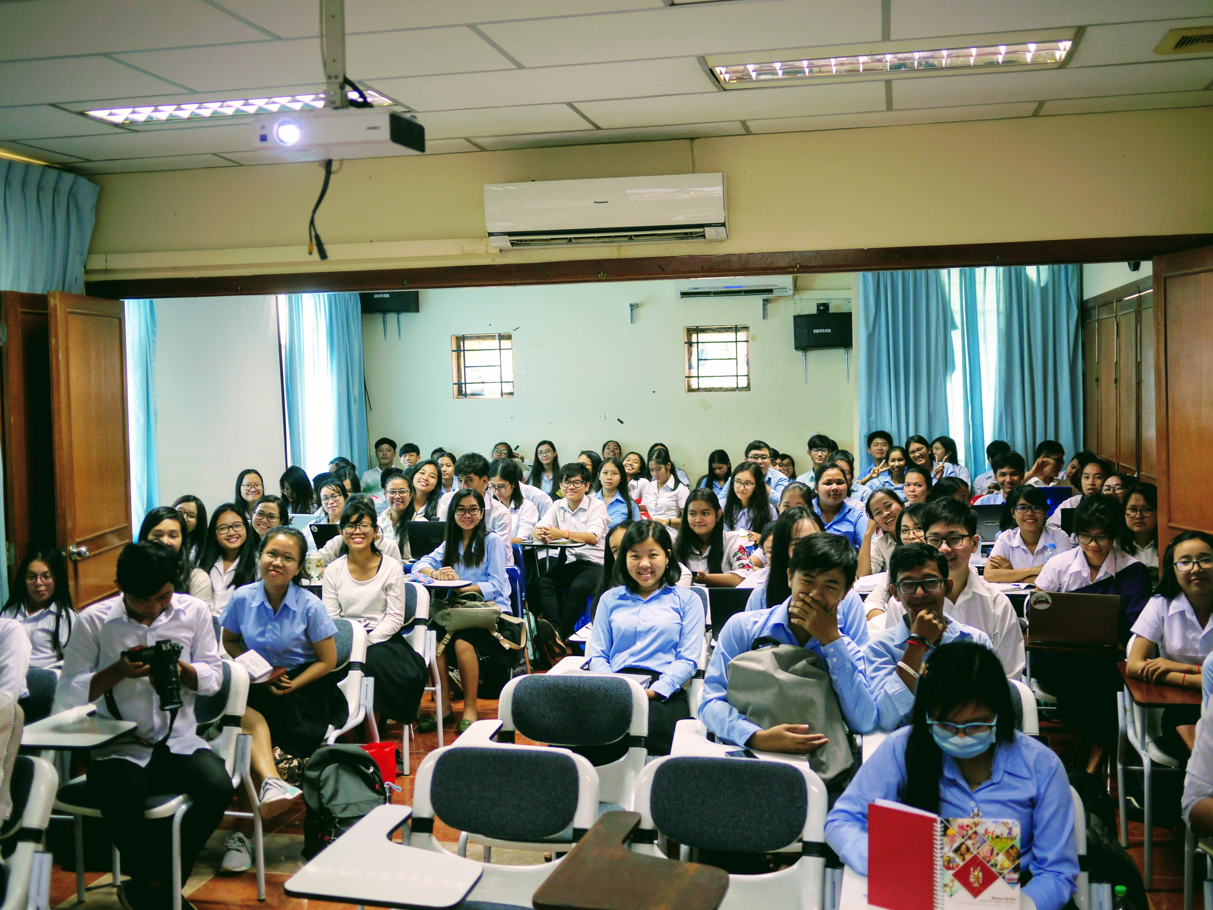 Wikipedia workshop participants at Department of Media and Communications, Royal University of Phnom Penh